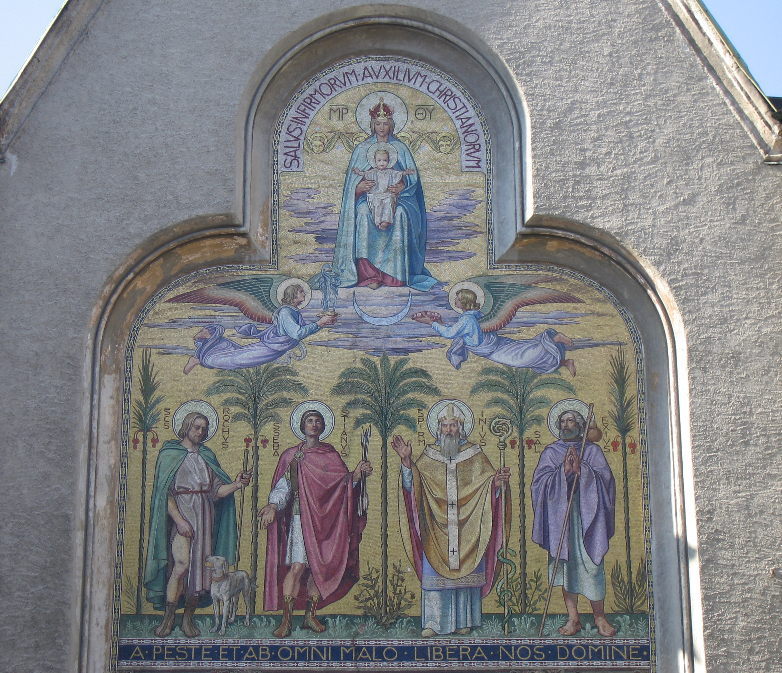 The mosaic over the main portal of the Dreiheiligenkirche (Three Saints Church) in Innsbruck. The church is dedicated to Saint Rochus, Saint Sebastian and Saint Pirmin - and, since 1786 also to Saint Alexius. Those four saints are shown on the mosaic (from left to right). Above them is Mary with the young Jesus in her arms. The church was finished in 1613 after a plague hit Innsbruck.